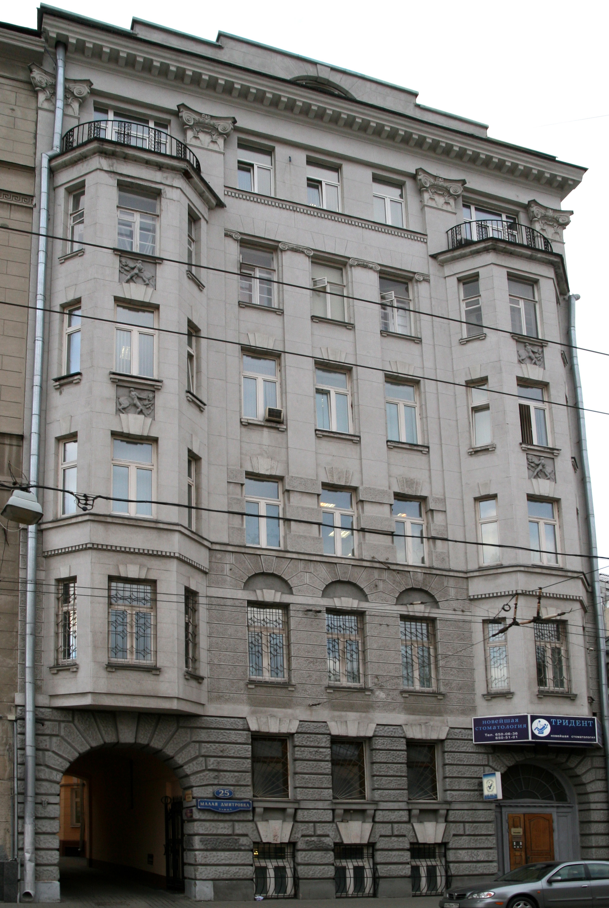 Moscow, Malaya Dmitrovka Street 25